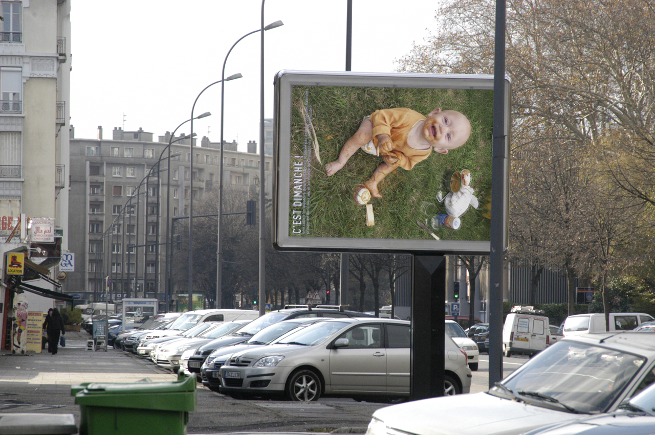 This collaborative work consists of 70 urban billboards reproducing as many photographs of amateurs. This exhibition was continued at the Musée de Grenoble.